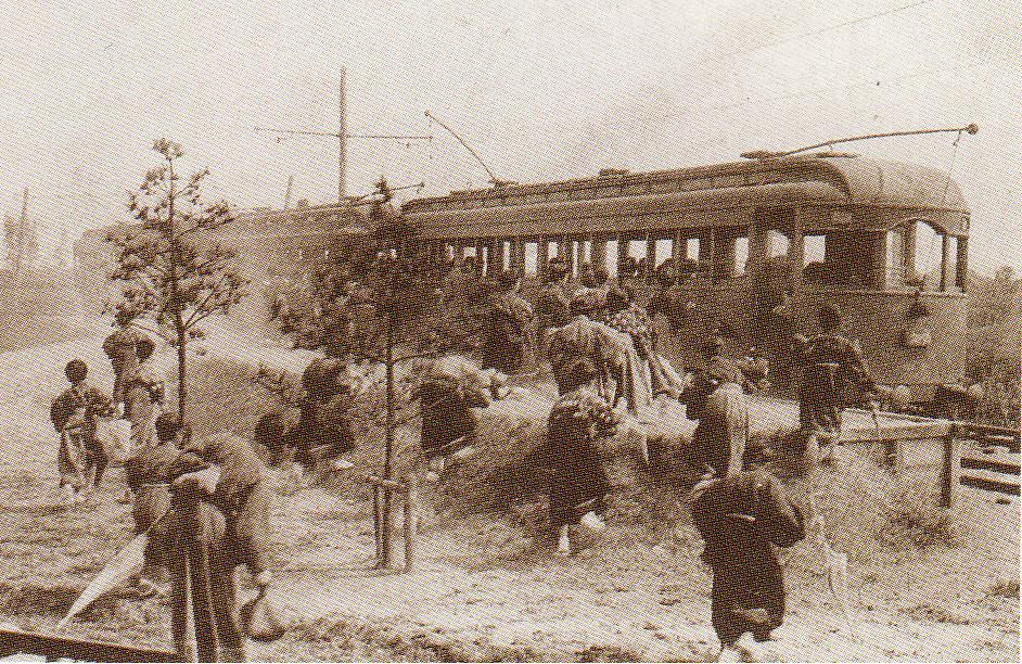 No.38 electric car of Keihin Electric railway, in Anamori Line.